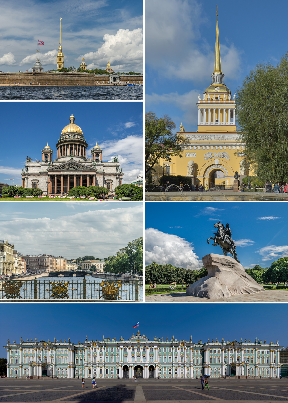 Collage for an article about St. Petersburg